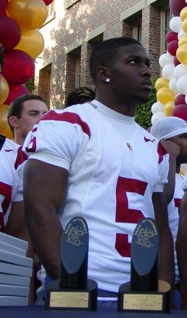 Photo by User:daveblack from 2004 national championship celebration, January 2005. Reggie is pictured here with his PAC-10 offensive player-of-the-year trophy